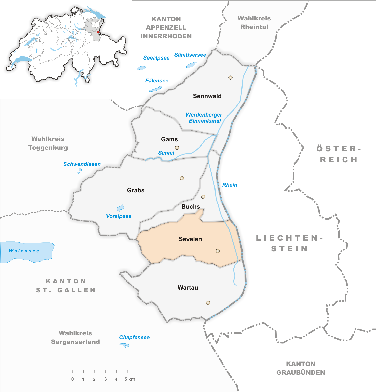 Municipality Sevelen